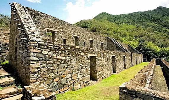 Lost city Inca of Choquequirao in the Cusco region (Peru)